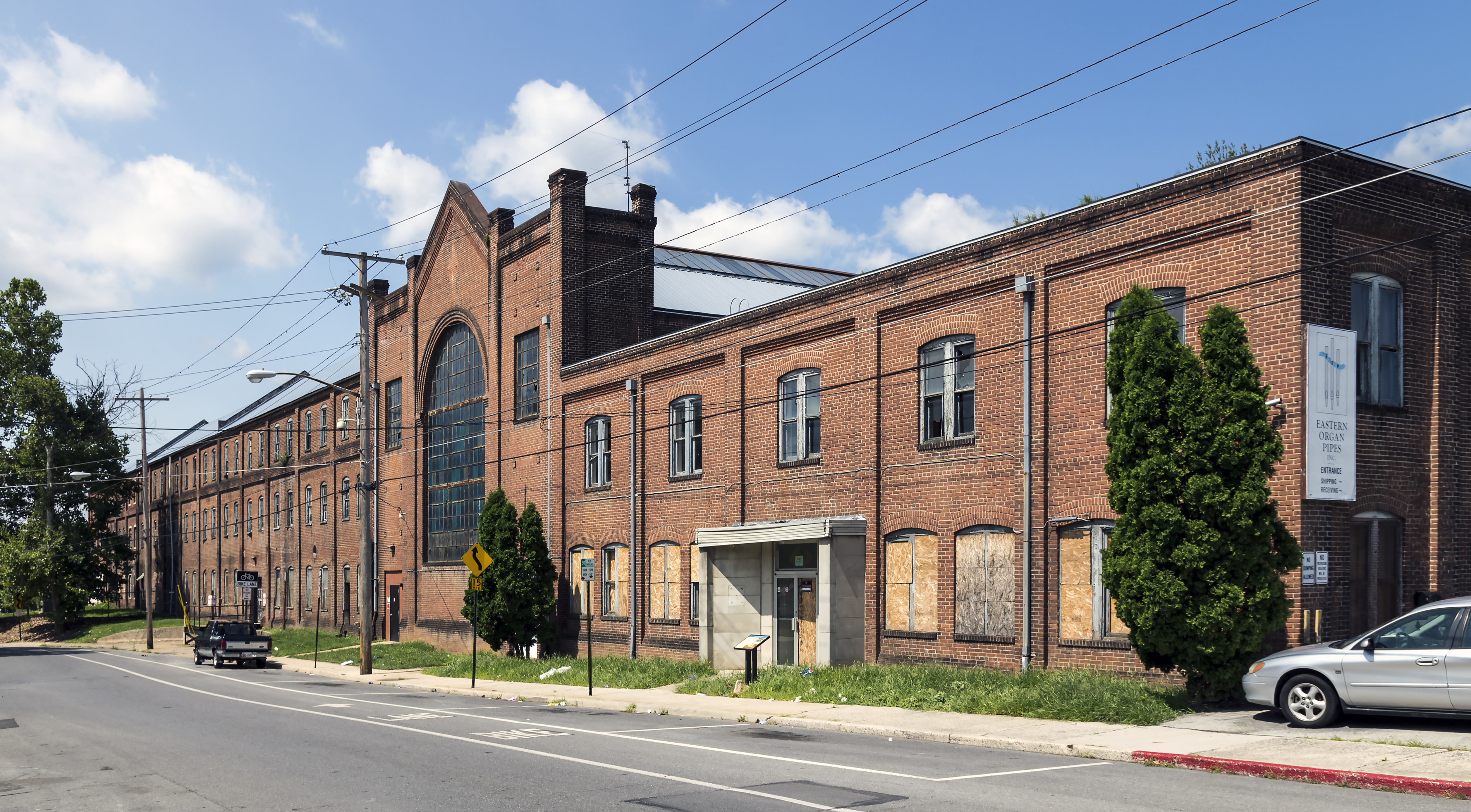 The former M.P. Moller organ factory in Hagerstown, Maryland, USA